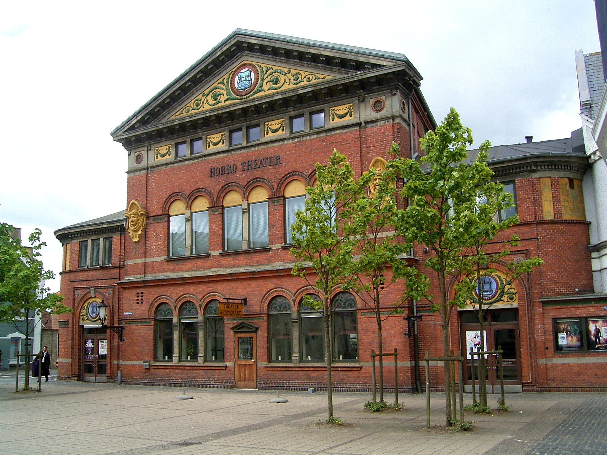 Hobro Theater in Hobro